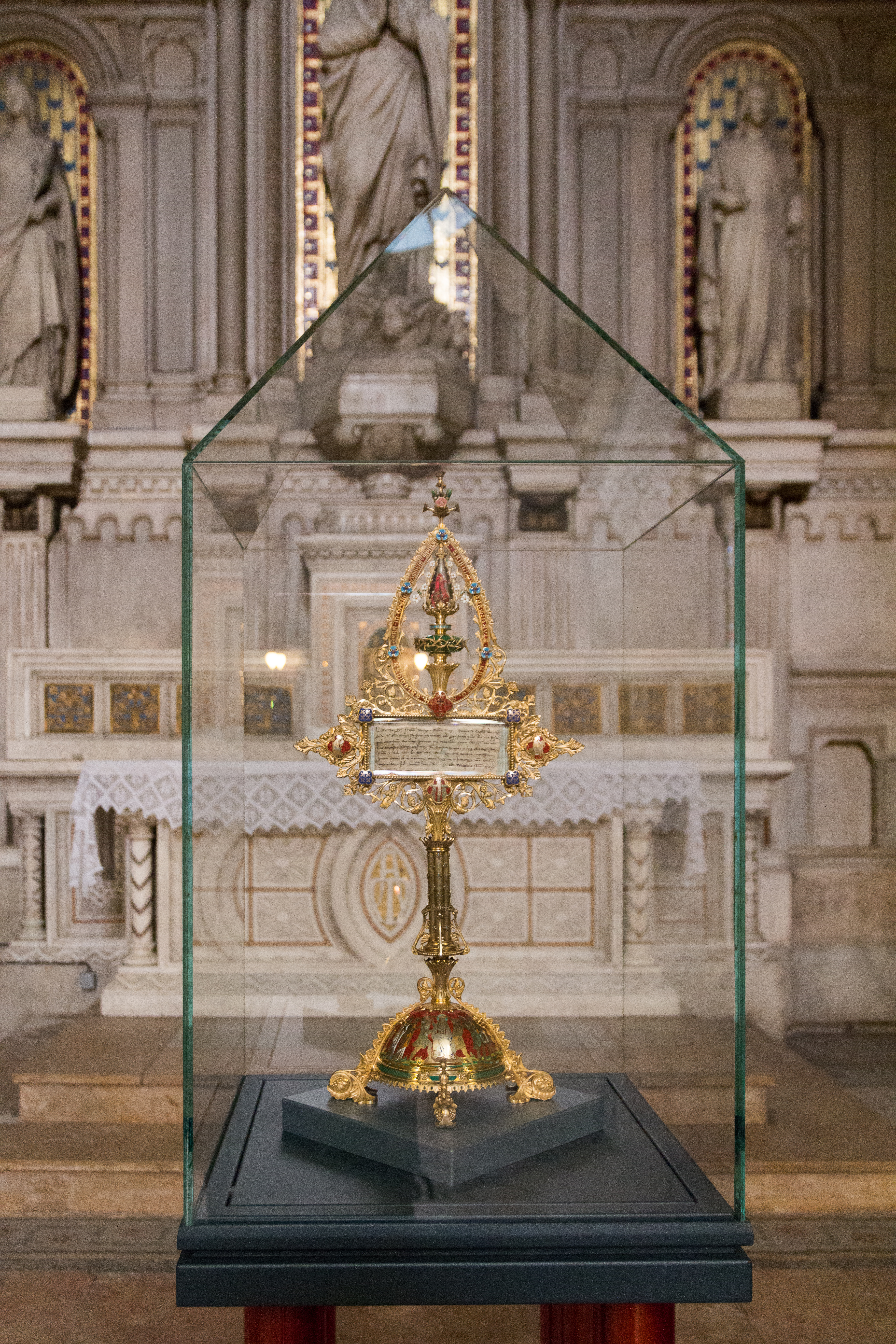 Reliquary of copper embellished with enamel, containing the Holy Thorn enclosed in a bulb of rock crystal and manuscript donation by Saint Louis..